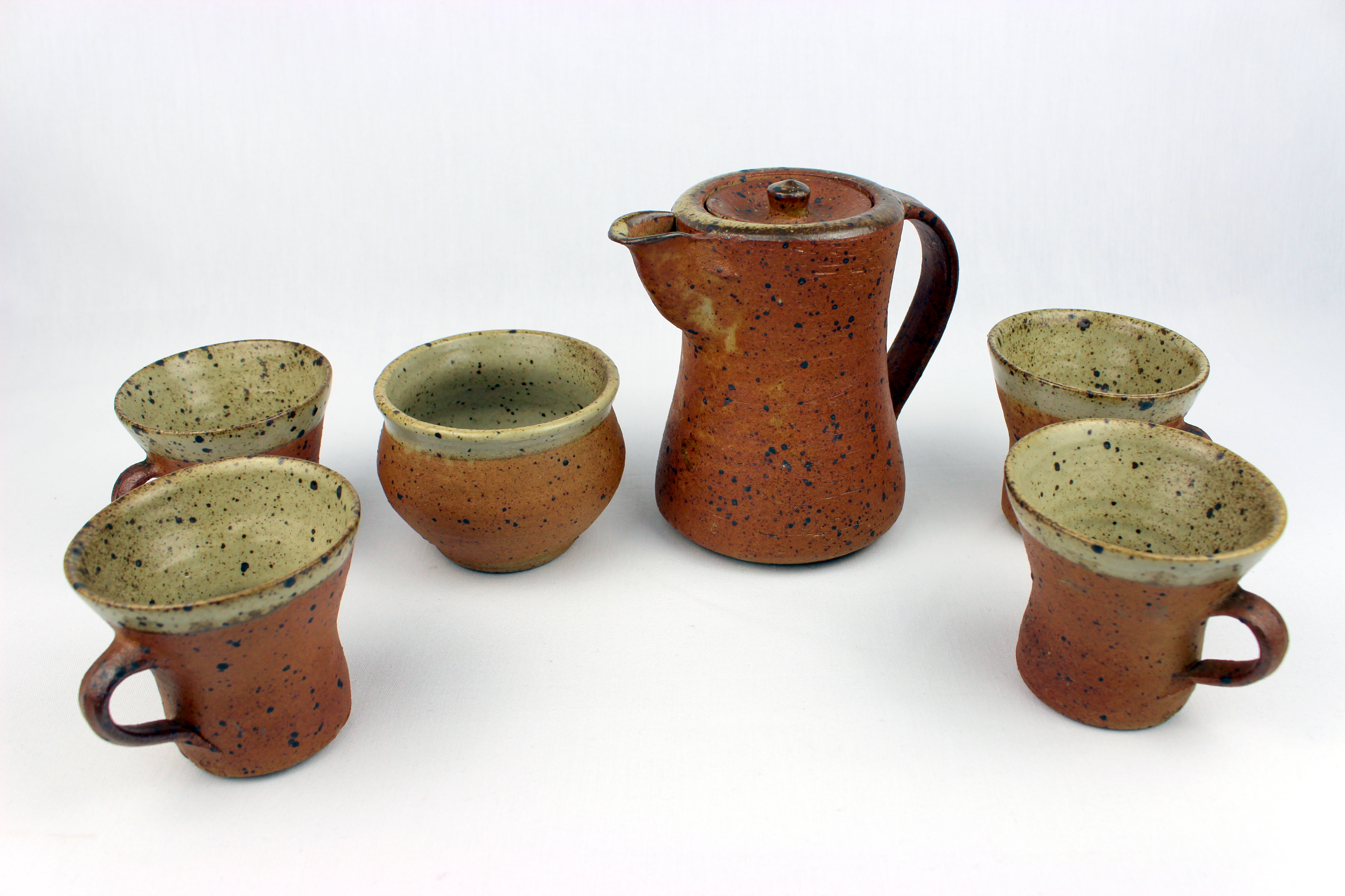 Speckle-glazed cup, water pot and sugar bowl. From the W.A. Ismay Studio Ceramics Collection at York Art Gallery